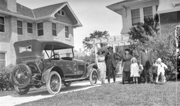 Family standing in front of a house beside a car, Texas. from the Harry Walker archives